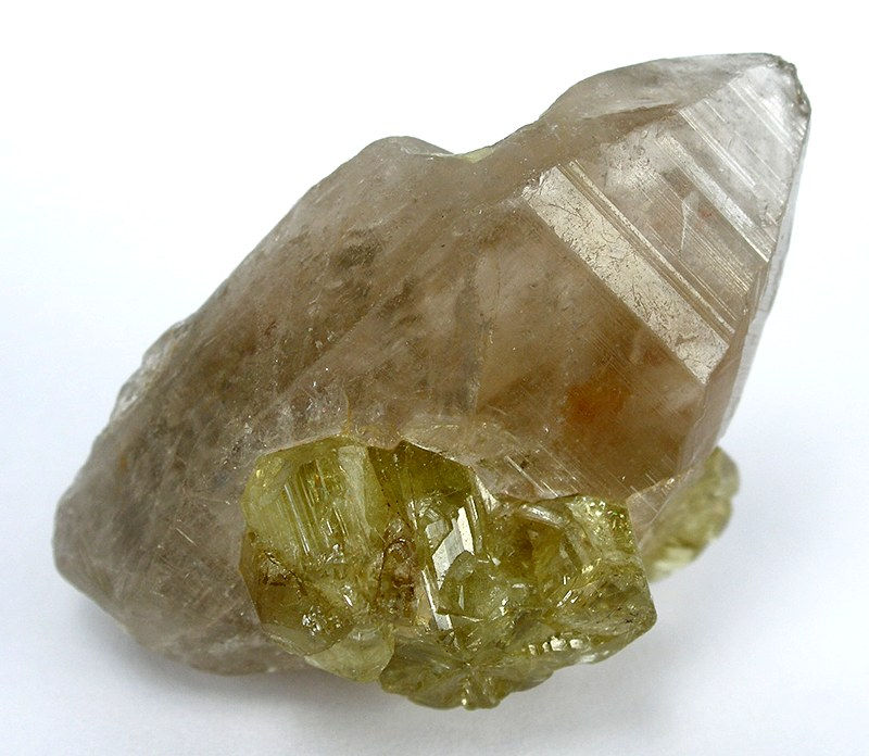 Chrysoberyl, Quartz Locality: Espírito Santo, Southeast Region, Brazil (Locality at ) Size: miniature, 4.0 x 2.5 x 1.8 cm Chrysoberyl on Quartz Crystals to 1.25 cm o matrix of a quartz crystal...the only such matrix specimen I can say Ive personally seen. Ex. Laura and Stevia Thompson Collection.